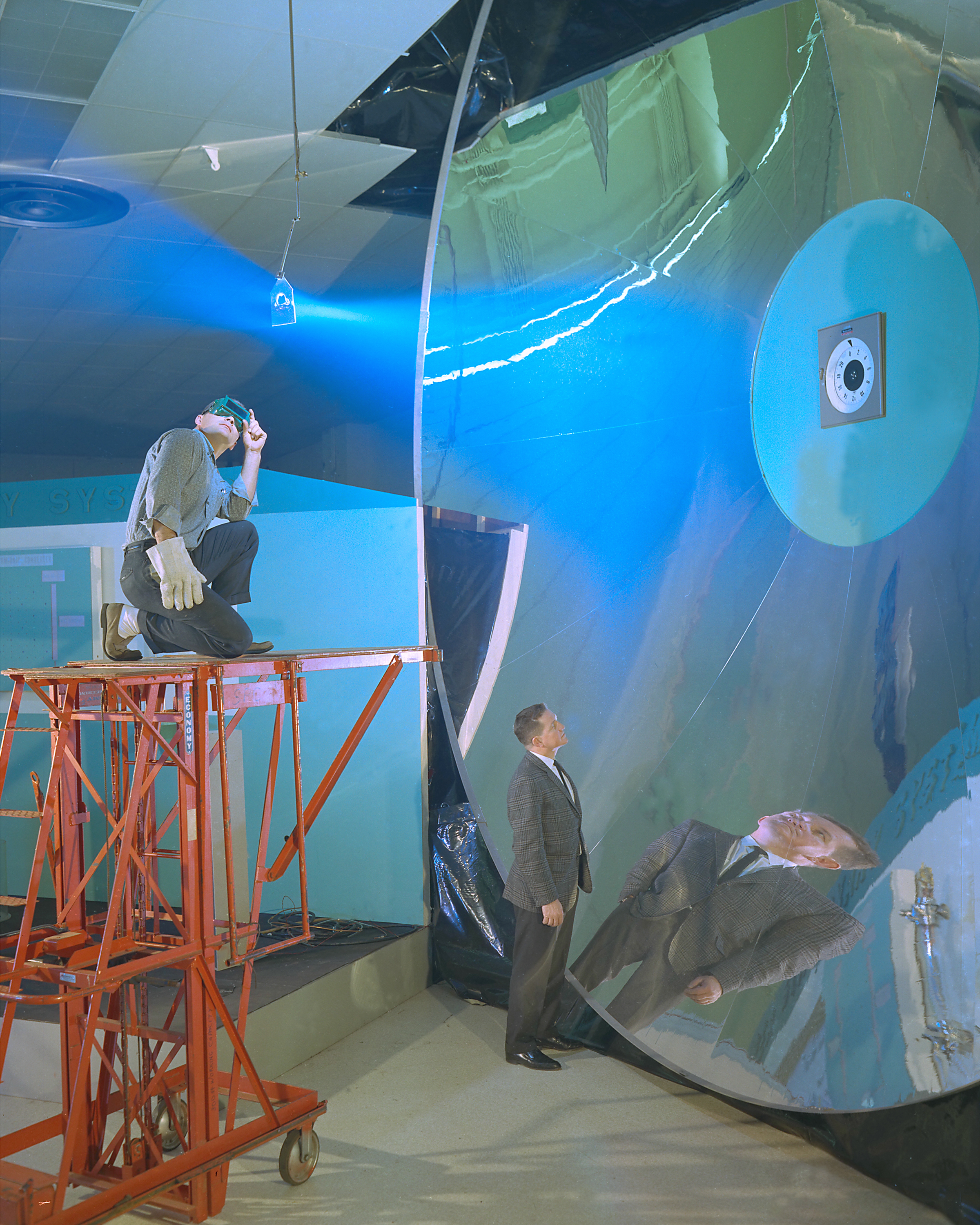 Solar Mirror located in the Solar Collector Laboratory at the Lewis Research Center, now known as John H. Glenn Research Center